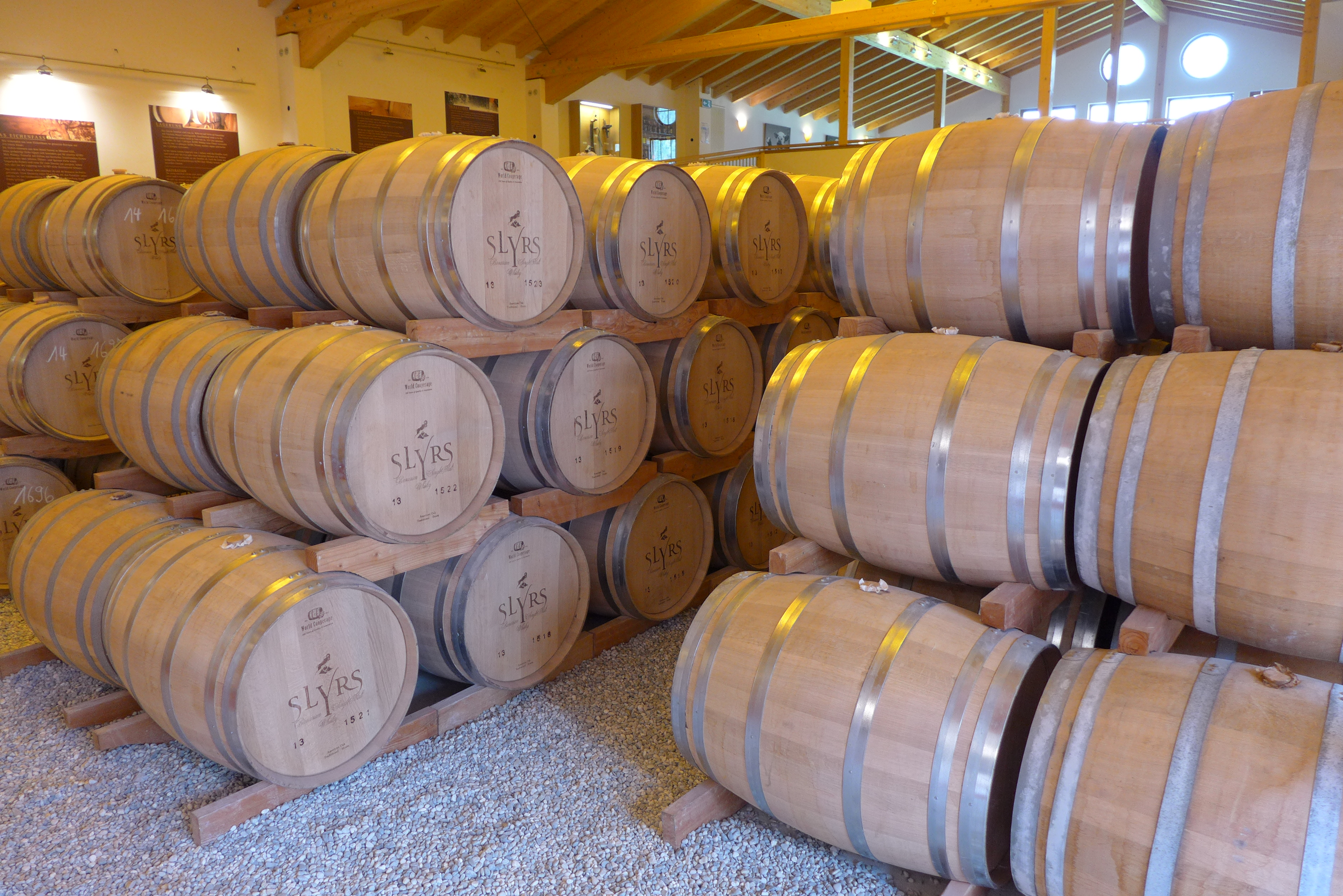 View of some of the barrels inside the warehouse at Slyrs, a whisky distillery in Schliersee, Bavaria, Germany.